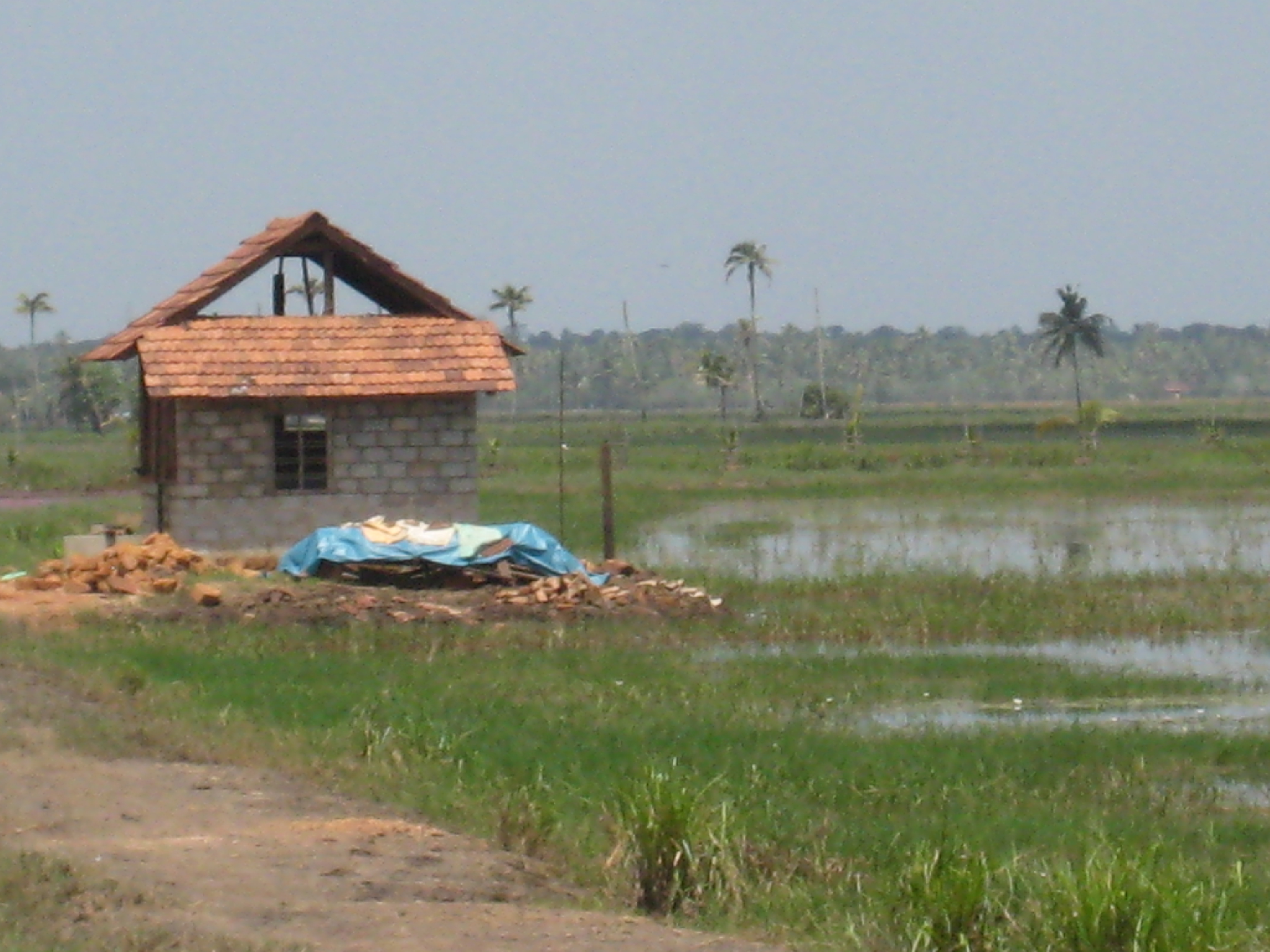 Vinod. N., Self taken photo of the Ayamkudy Village using my Digital Camera. I am working in an MNC in Chennai. I have contributed many pages to Wikipedia